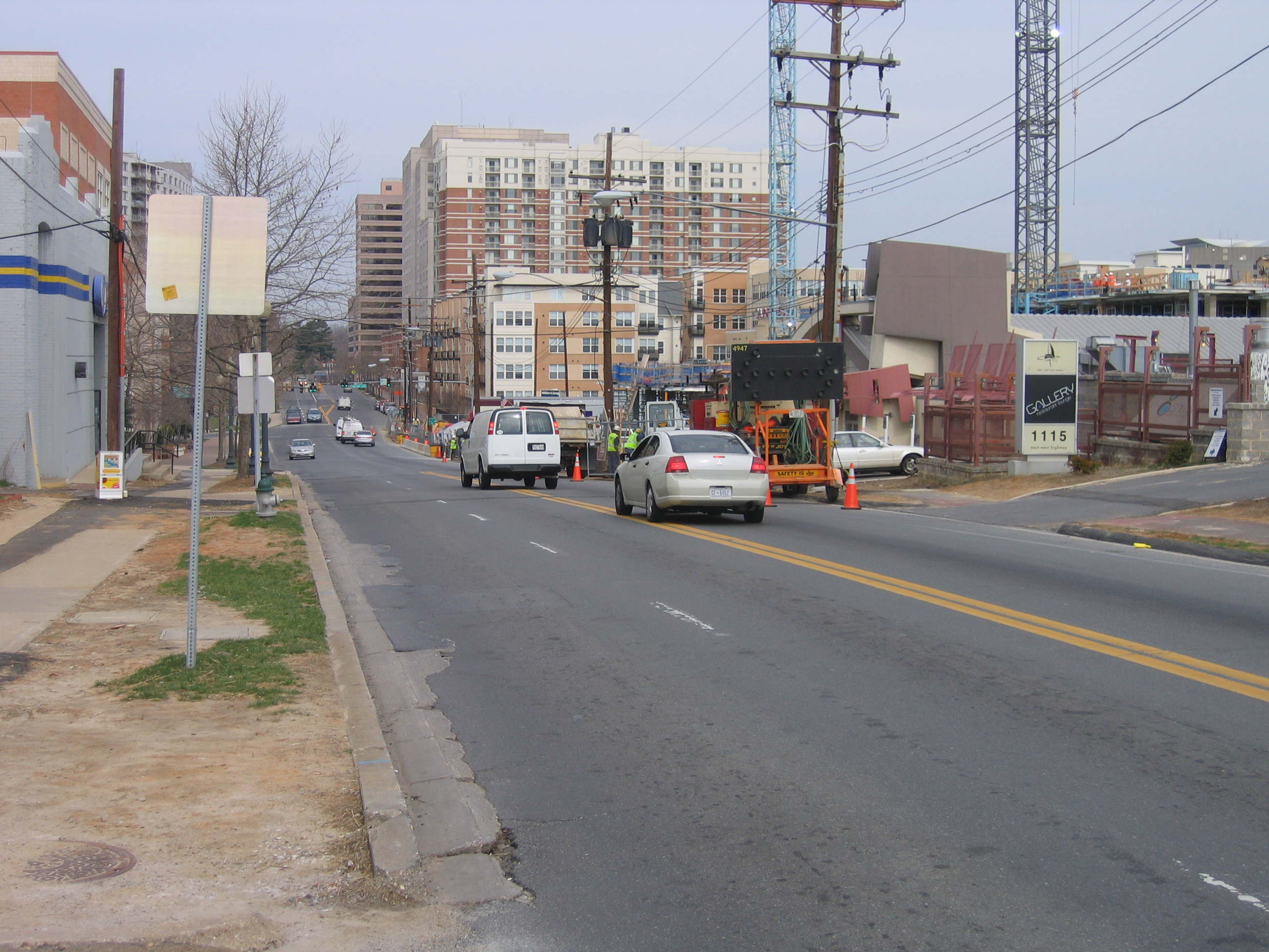 MD 410 (East-West Highway) at Blair Mill Road / Newell Street, Silver Spring, MD, USA